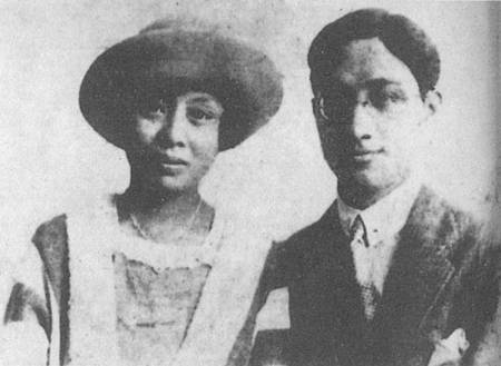 Xu Zhimo (right) and Zhang Youyi